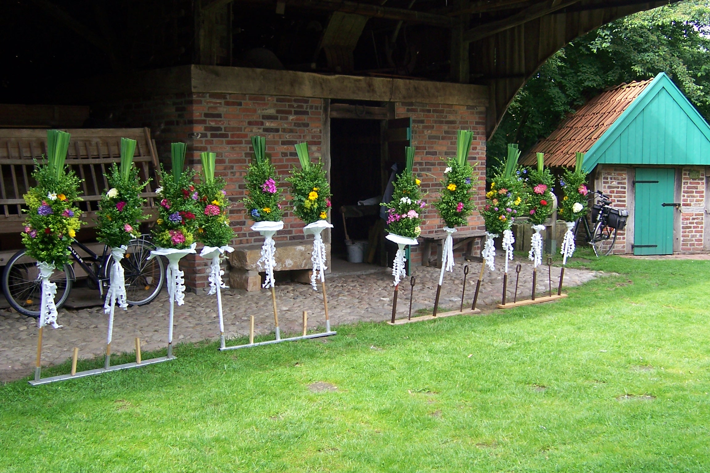 Preparing of a "Torste", an item to adorn the annual corpus christi procession with more splendour. The "Torsten" are carried by the children, who have done their first holy communion in this year.